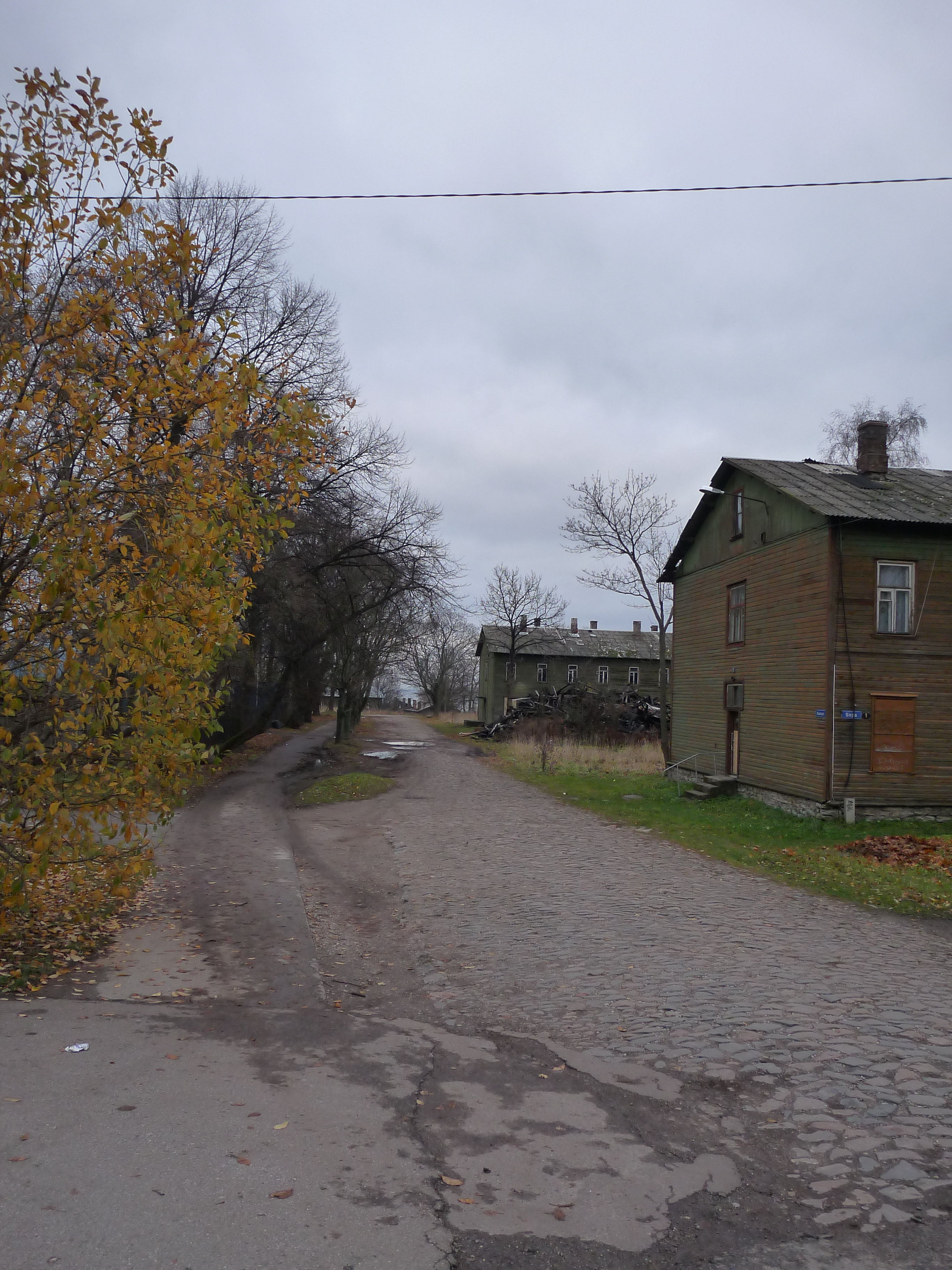 Kaevuri street in Tallinn, Estonia